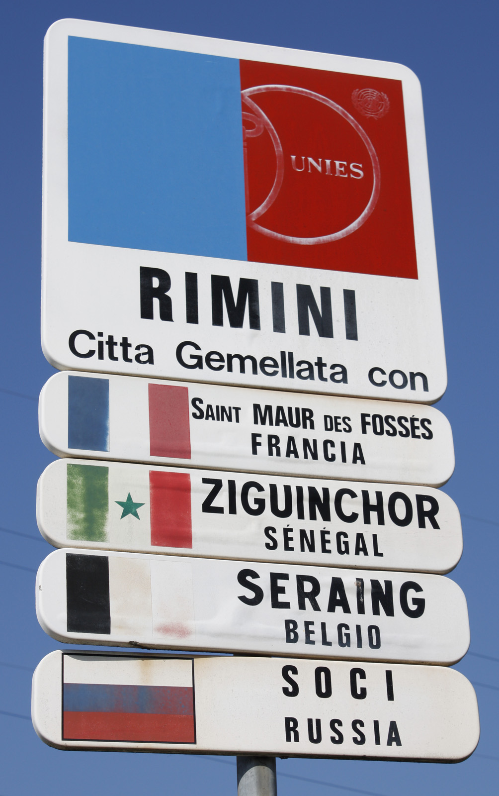 Rimini's sister cities